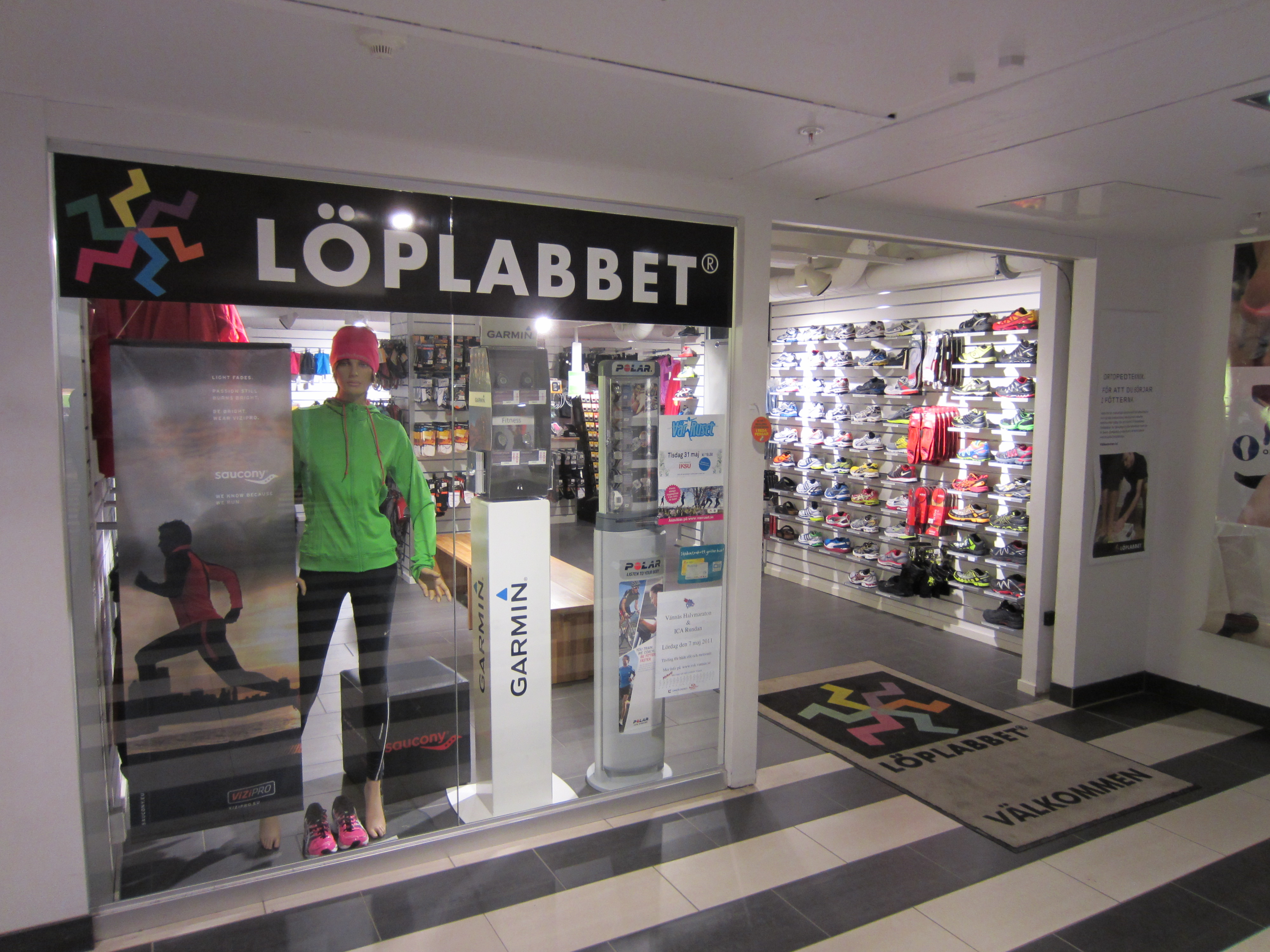 "Löplabbet" runner's shop in Umeå.